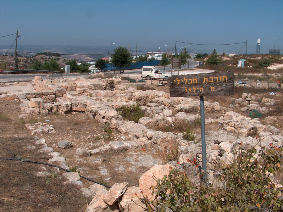 Archeological site in the settlement Bat Ayin